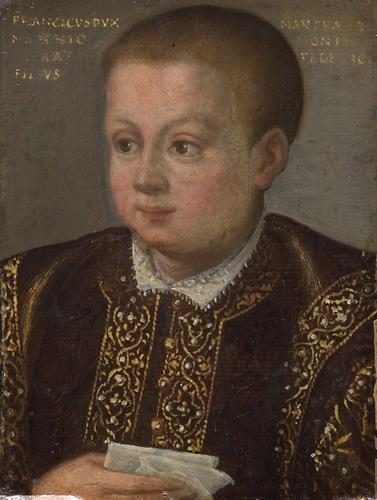 Portrait of Francesco III Gonzaga, Duke of Mantua (1533-1550)